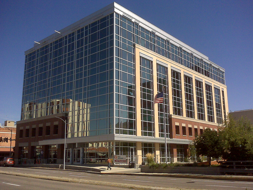 The new First Interstate Bank building in downtown Missoula nears completionThe new First Interstate Bank building in downtown Missoula nears completion